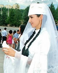 Karachay People